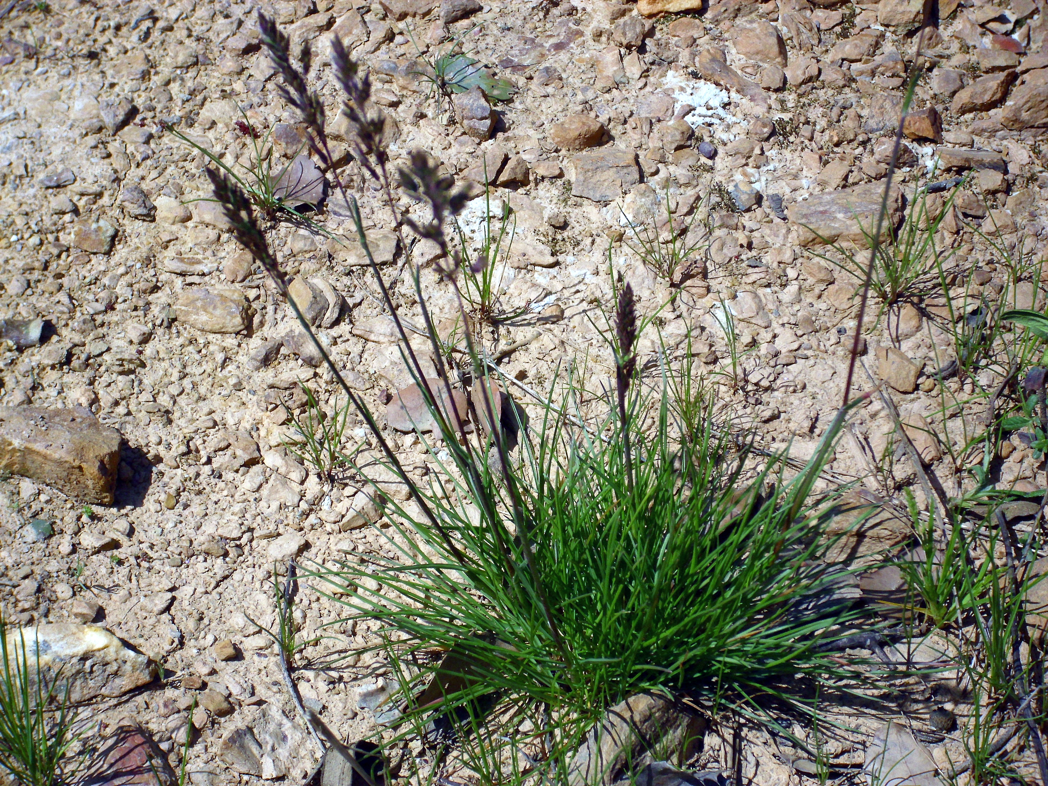 Agrostis canina habit, Sierra Madrona, Spain